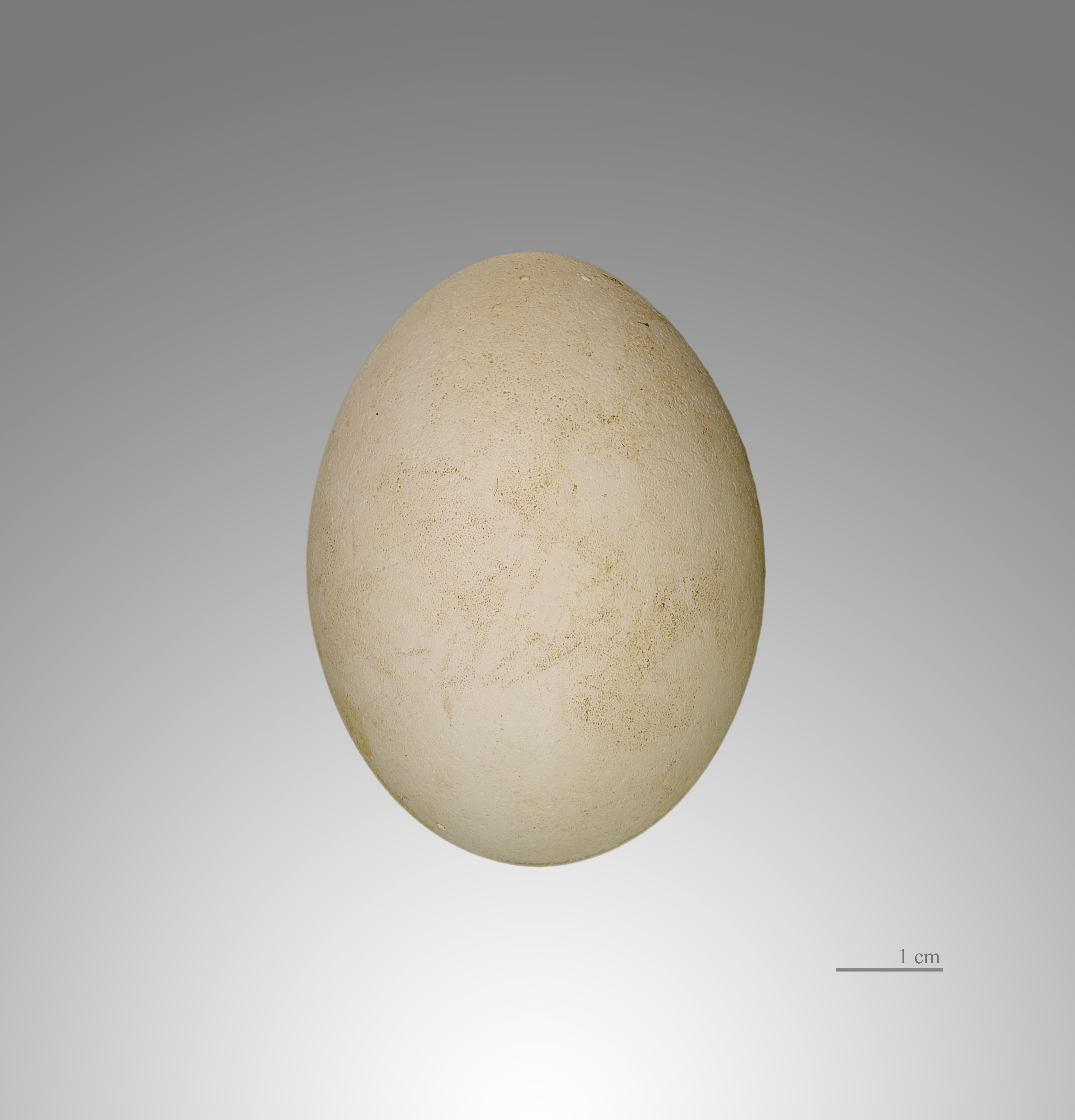 Egg of Black Stork. Collection of Jacques Perrin de Brichambaut. Locality: Pont-de-Crau, Bouches-du-Rhône, France.